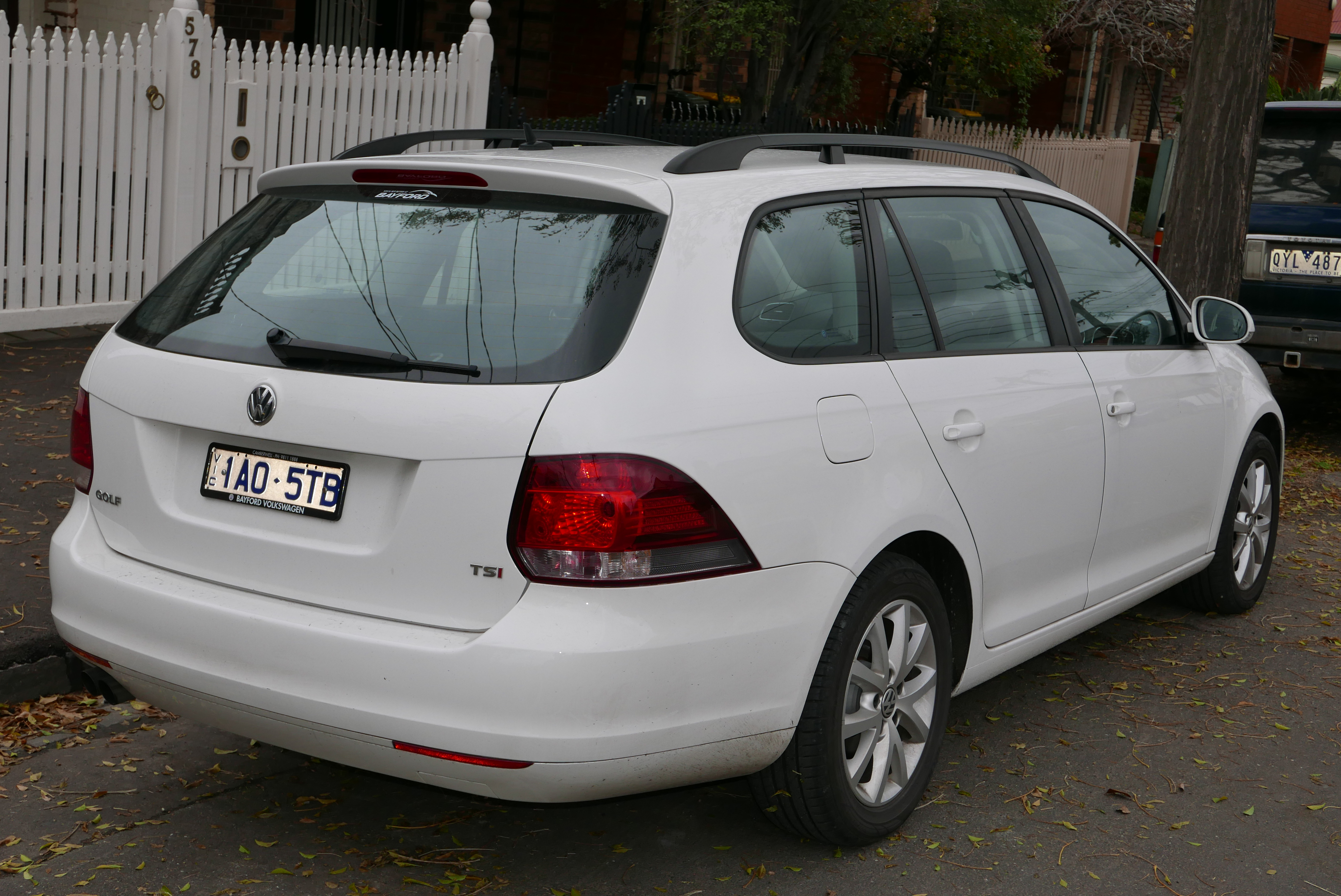 2013 Volkswagen Golf (5K MY13.5) 90TSI Trendline station wagon. Photographed in Fitzroy North, Victoria, Australia. Vehicle registration enquiry resultsJurisdictionVictoriaRegistration1AO5TBChassis codeWVWZZZ1KZDM637478Engine codeCZXC55413Compliance date2013-10Year of manufacture2013